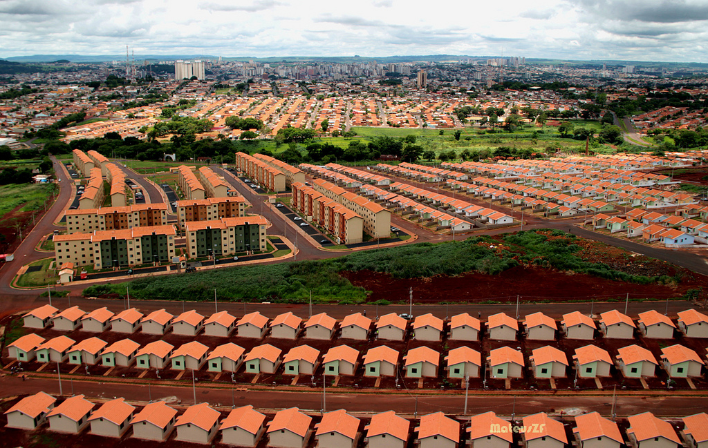 Popular houses in Ribeirão Preto, São Paulo, Brazil.